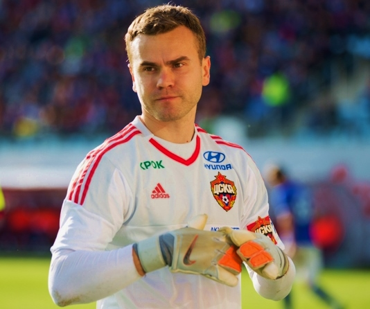 Igor Akinfeev